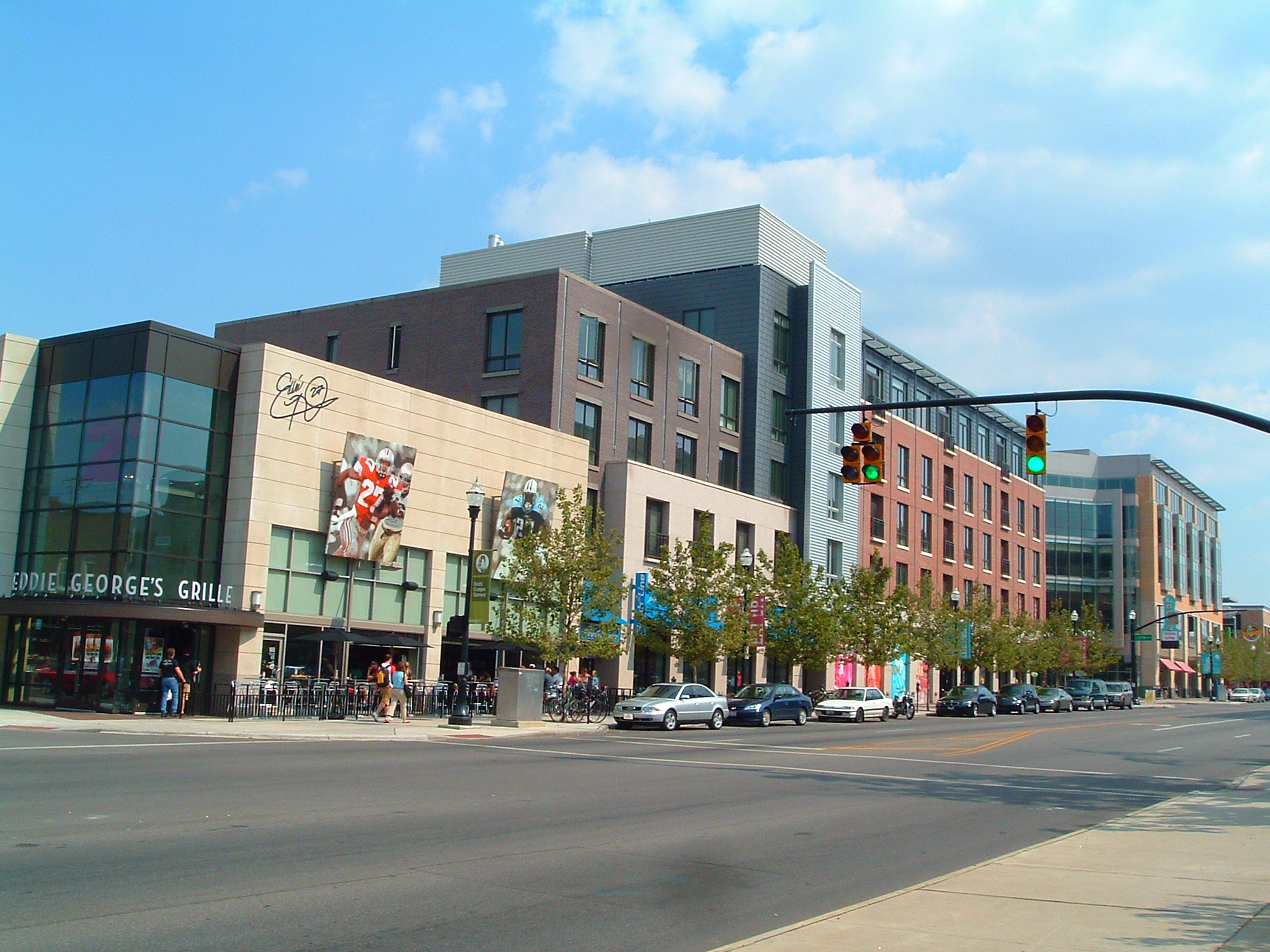 South Campus Gateway at The Ohio State University. Self made photo.